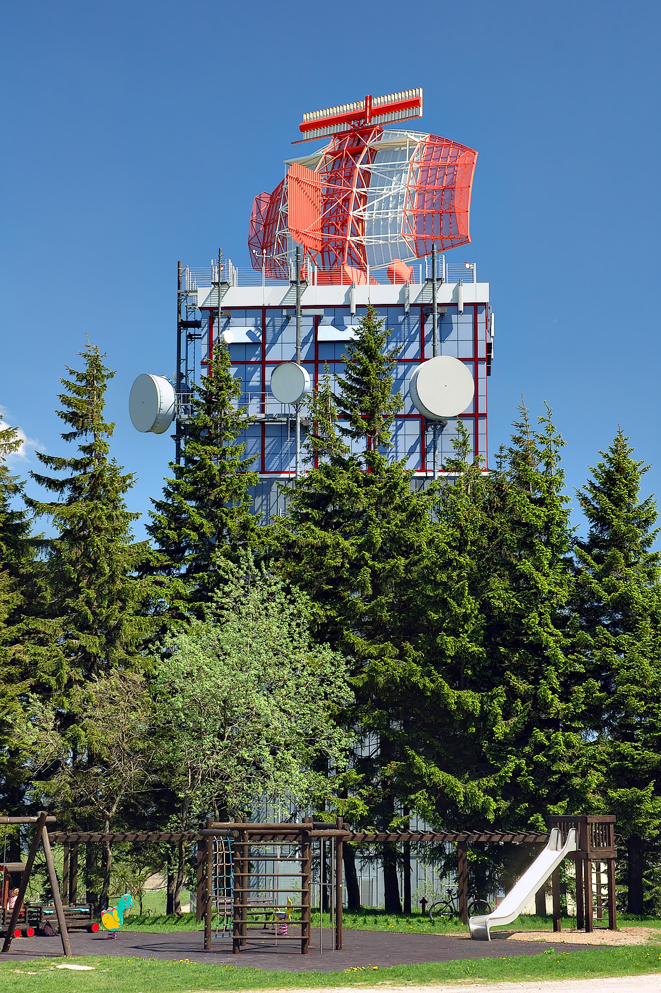 This image shows the radar station "MSSR Auersberg" at the Auersberg (Saxony, Germany). The radar is of the type "Thales RSM970".